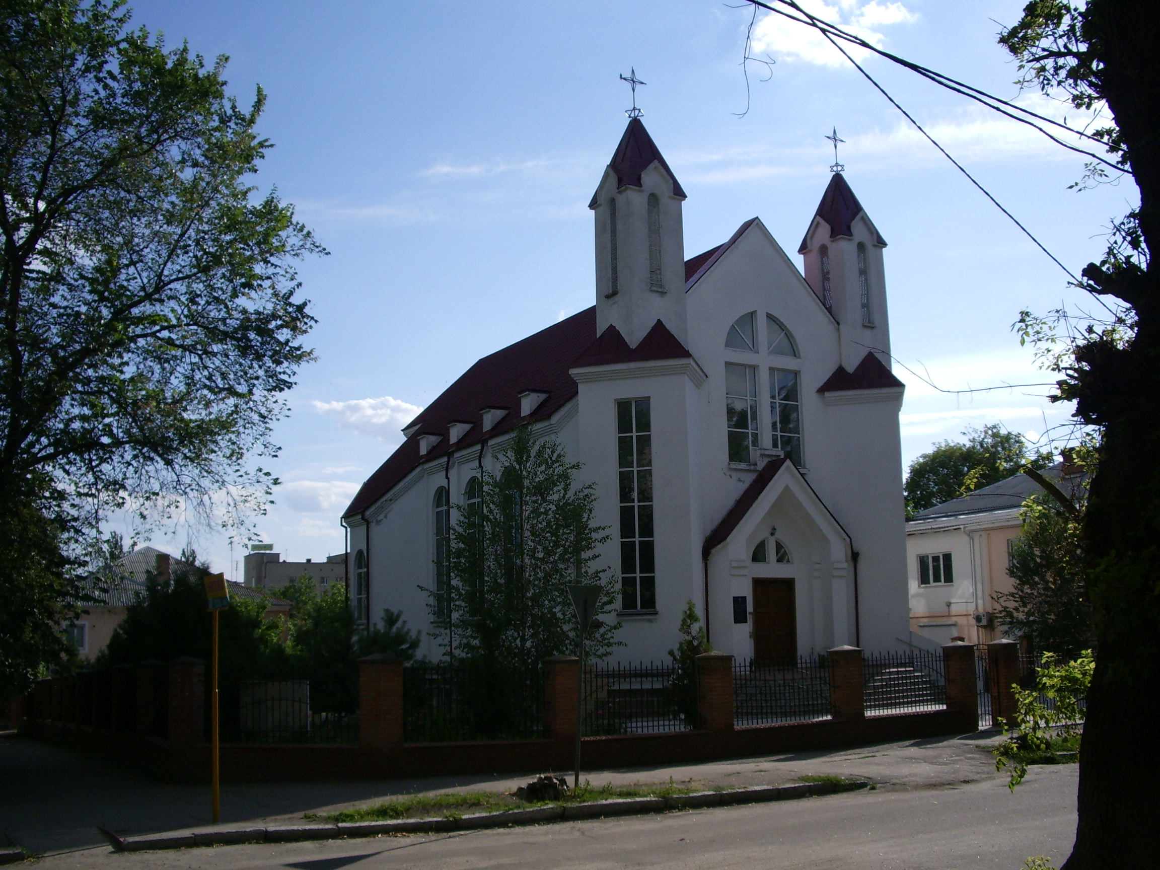 Новий костел у Кіровограді на вулиці Дворцовій